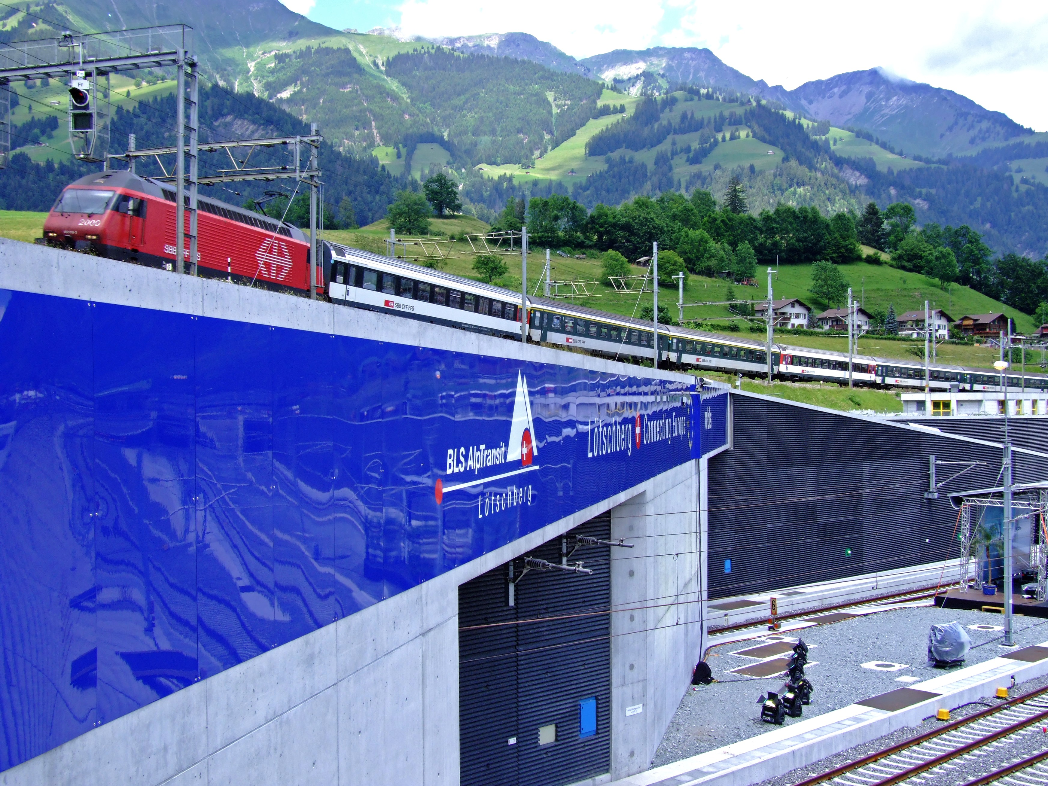 North entry of Lötschberg base tunnel. The train above follows the old line.